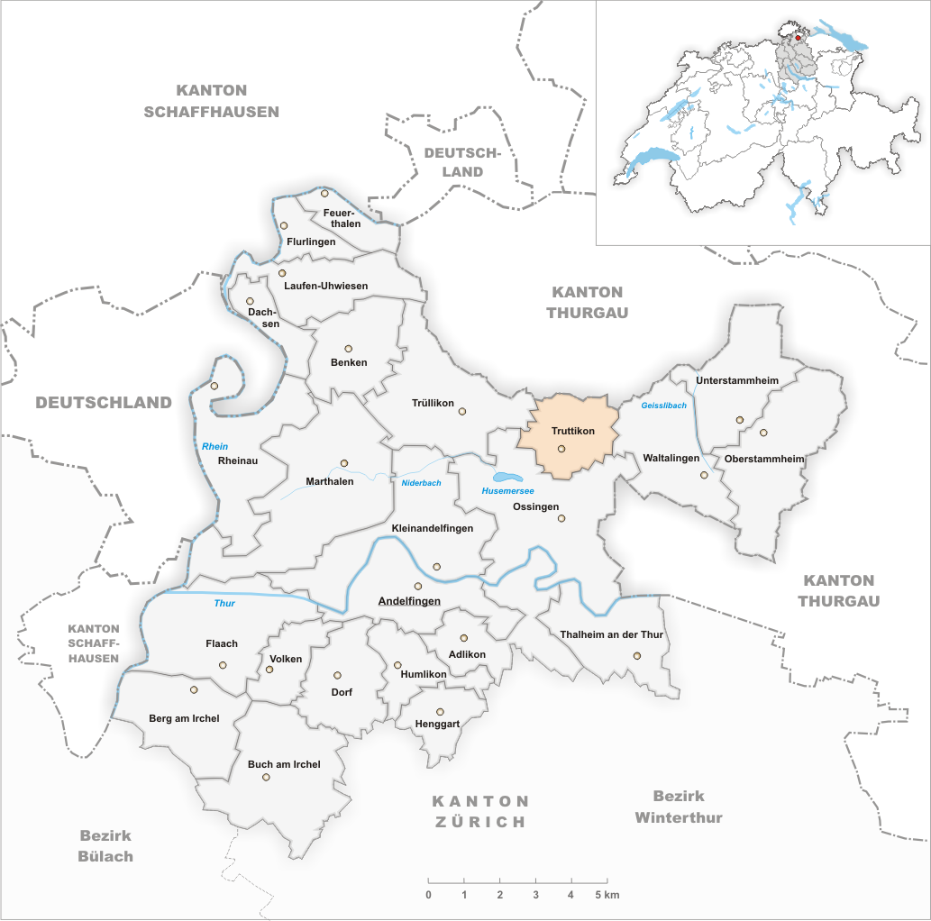 Municipality Truttikon